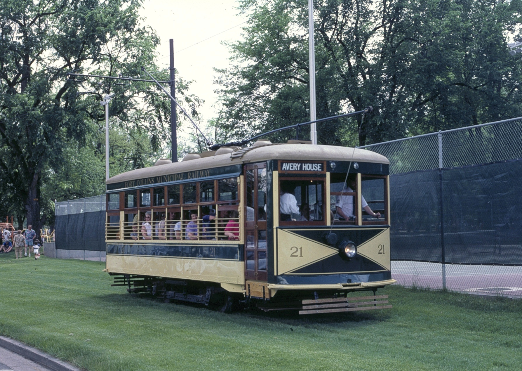 Fort Collins, Colorado streetcar 21, a 1919 Birney-type streetcar, leaving the City Park terminus of the heritage trolley line that opened in December 1984. Car 21 was built by the American Car Company, a subsidiary (after 1902) of the J. G. Brill Company.